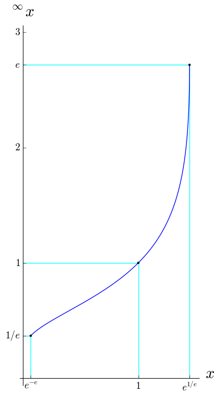 Infinite power tower